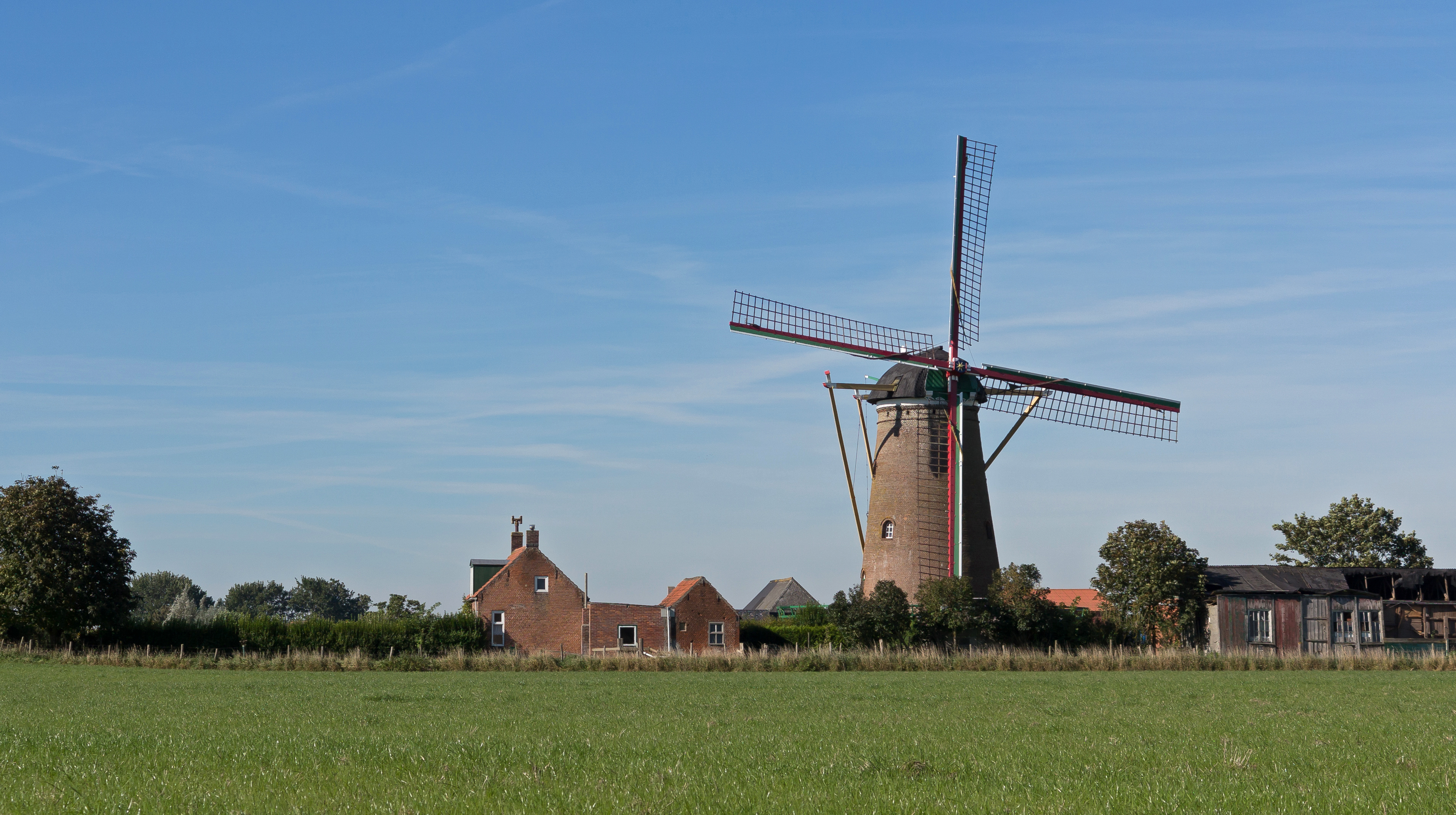 Zuidzande, windmill: de Zuidzandese molen